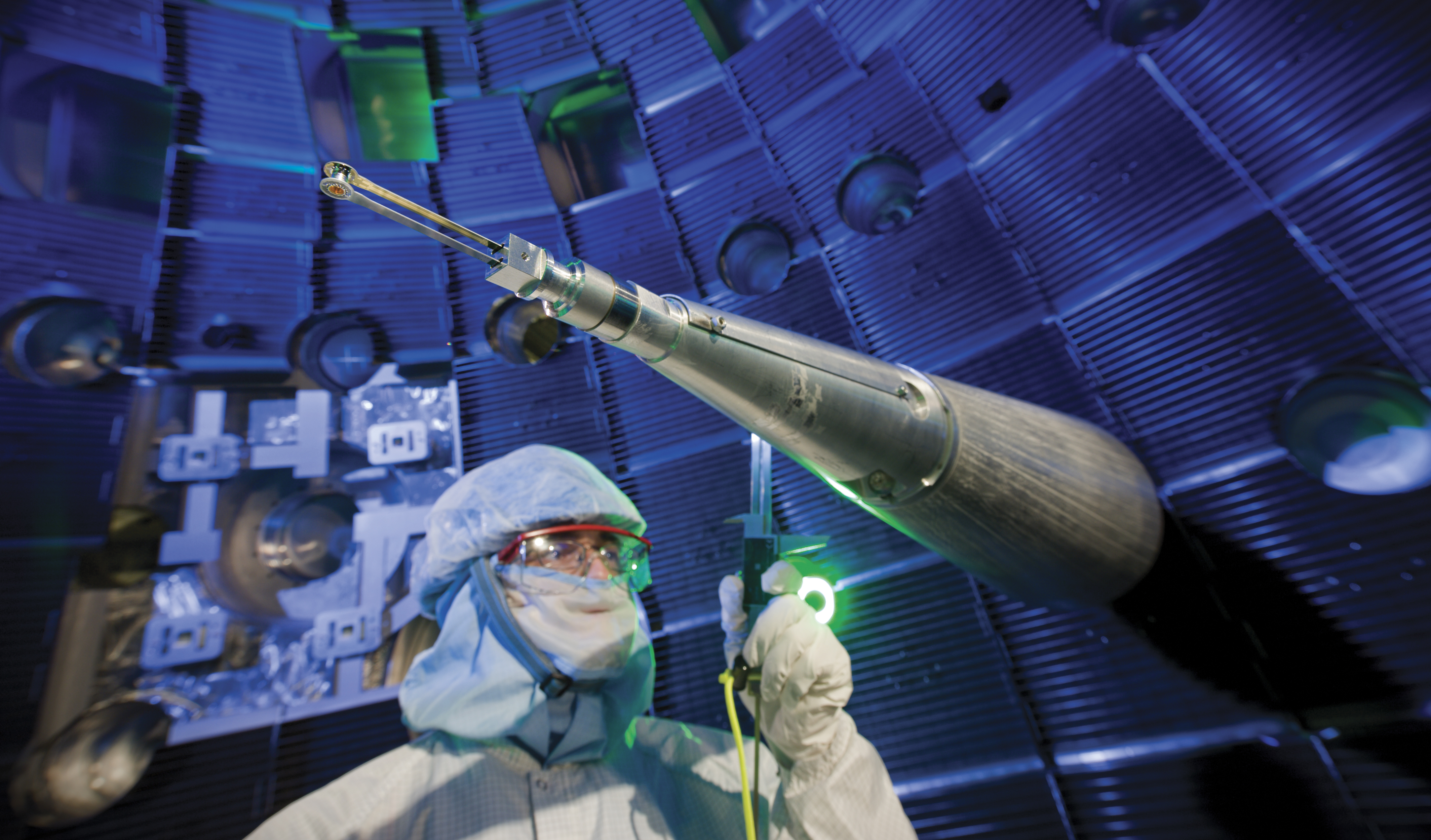 Before each experiment at the National Ignition Facility (NIF), a positioner precisely centers the target inside the 10-meter diameter target chamber and serves as a reference to align the laser beams. NIF is located at Lawrence Livermore National Laboratory in northern California.